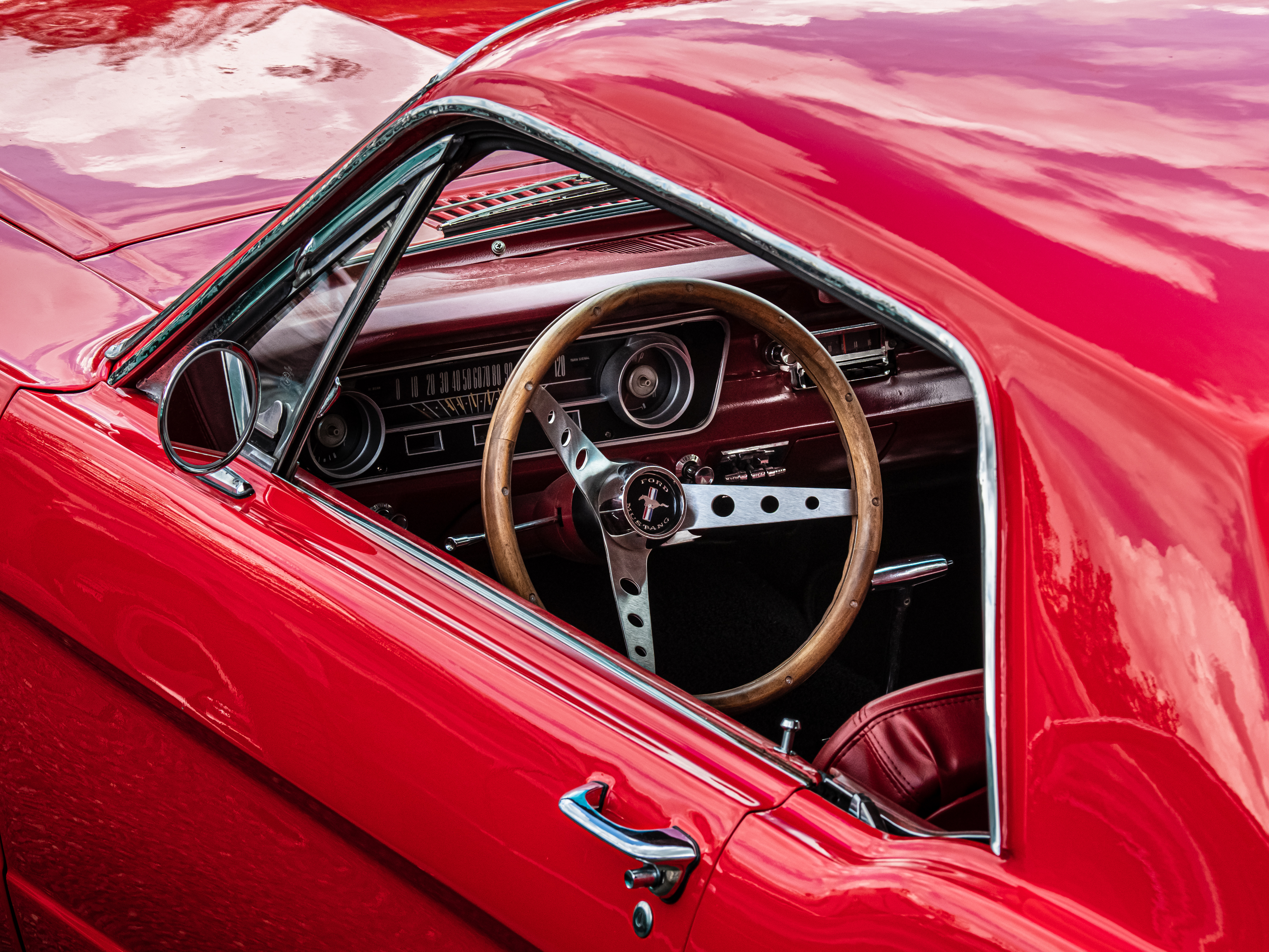 Ford Mustang BJ.1967 at the Oldtimertreffen Ebern